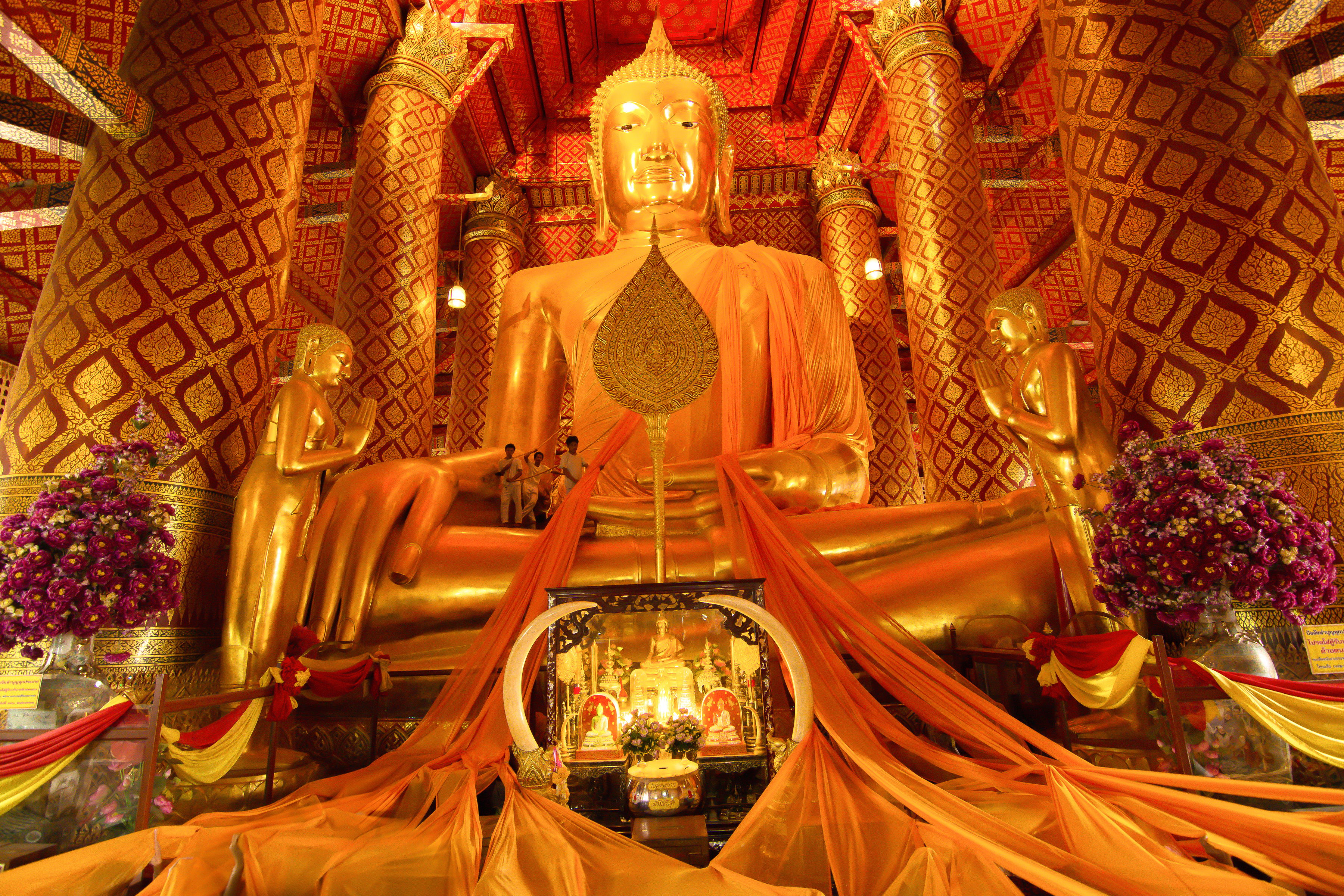 Phra Phuttha Trai Rattananayok, Wat Phanan Choeng Worawihan, Ho Rattanachai Subdistrict, Phra Nakhon Si Ayutthaya District, Phra Nakhon Si Ayutthaya Province